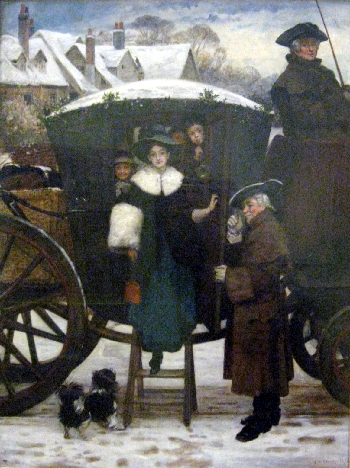 Grandmamma's Christmas Visitors (1873) by George Adolphus Storey. Oil on canvas. At the Weston Park Museum, Sheffield.